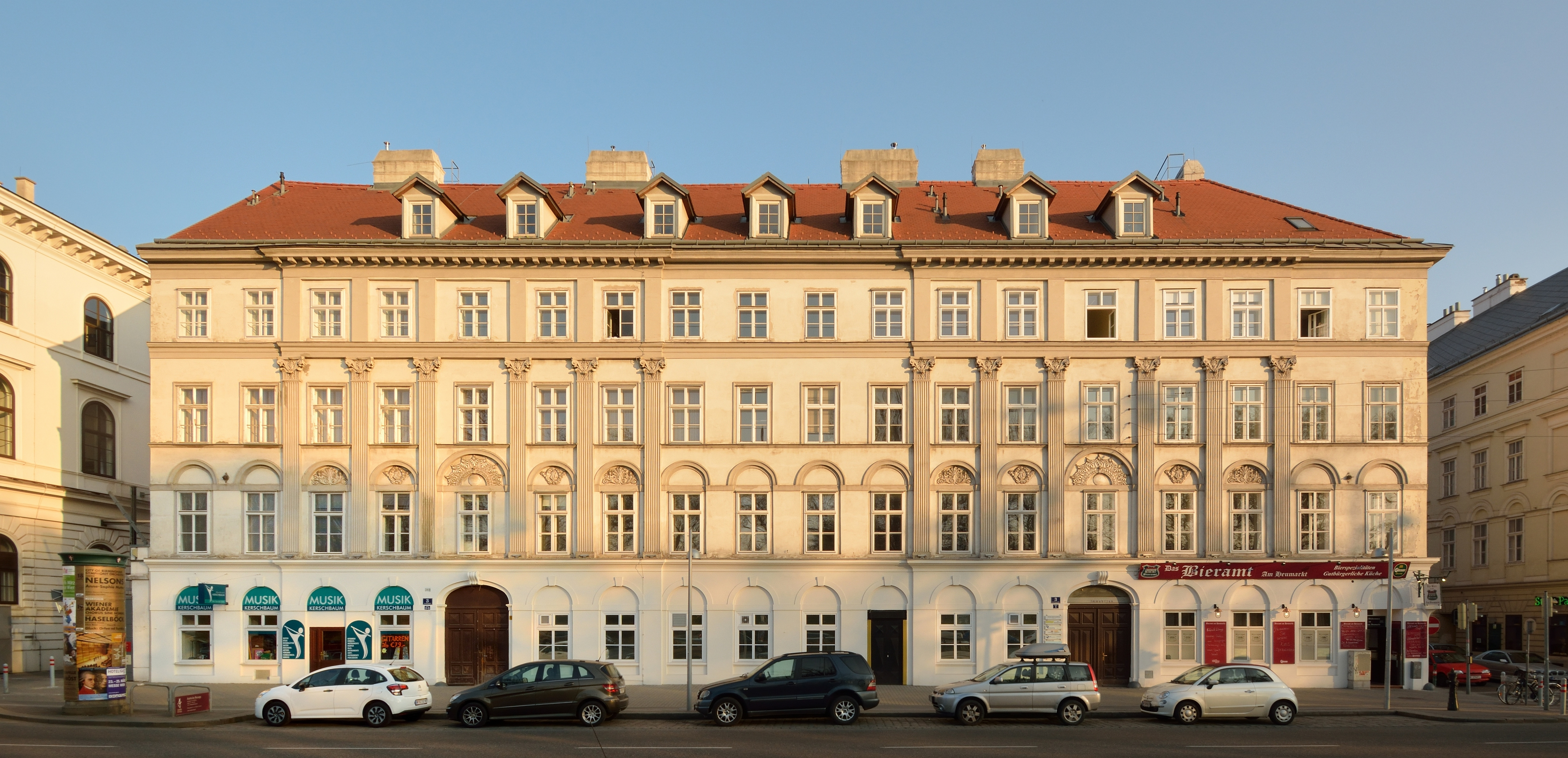 Am Heumarkt 3, 3rd district of Vienna